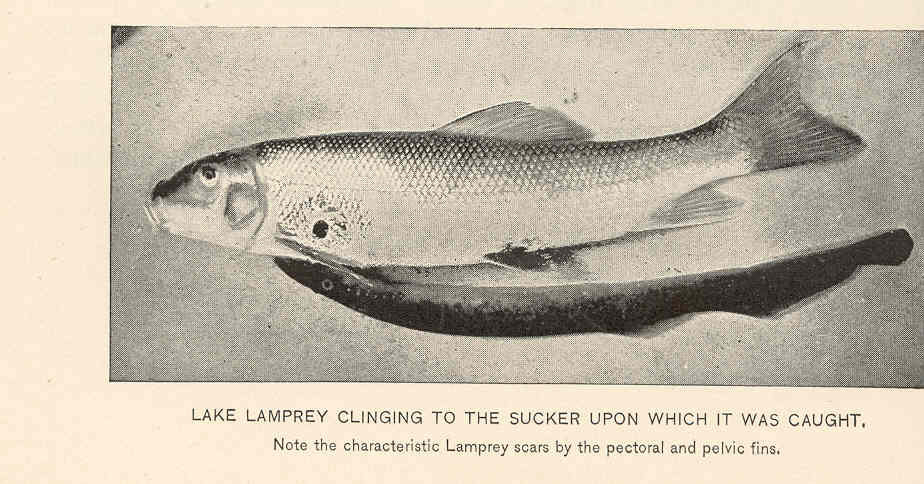 Lake Lamprey Clinging to the Sucker Upon Which it was Caught Note the caracteristic Lamprey scars by the pectoral and pelvic fins Subject: Catostomidae, Lampreys Tag: Fish